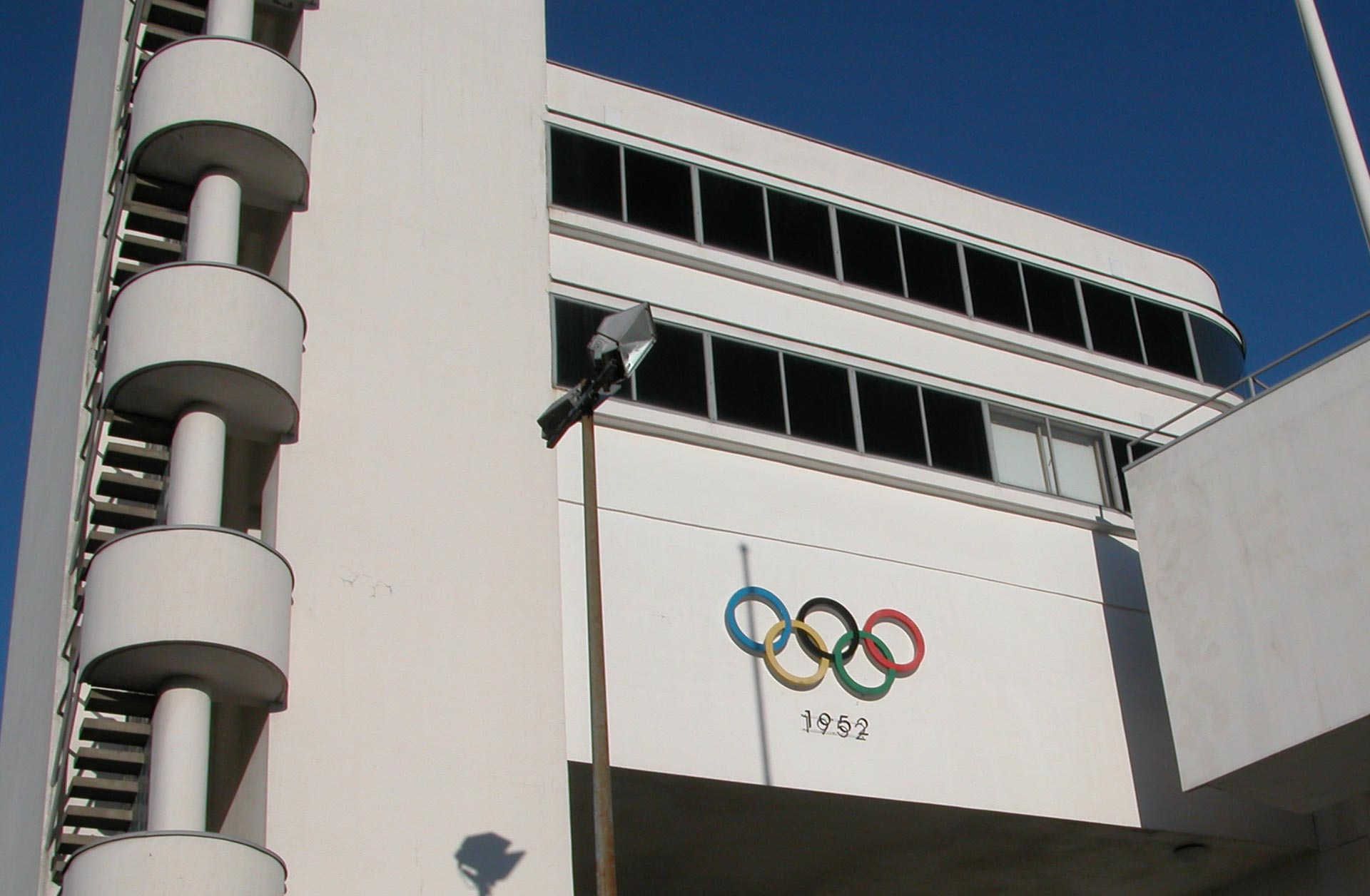 Helsinki Olympic Stadion rings